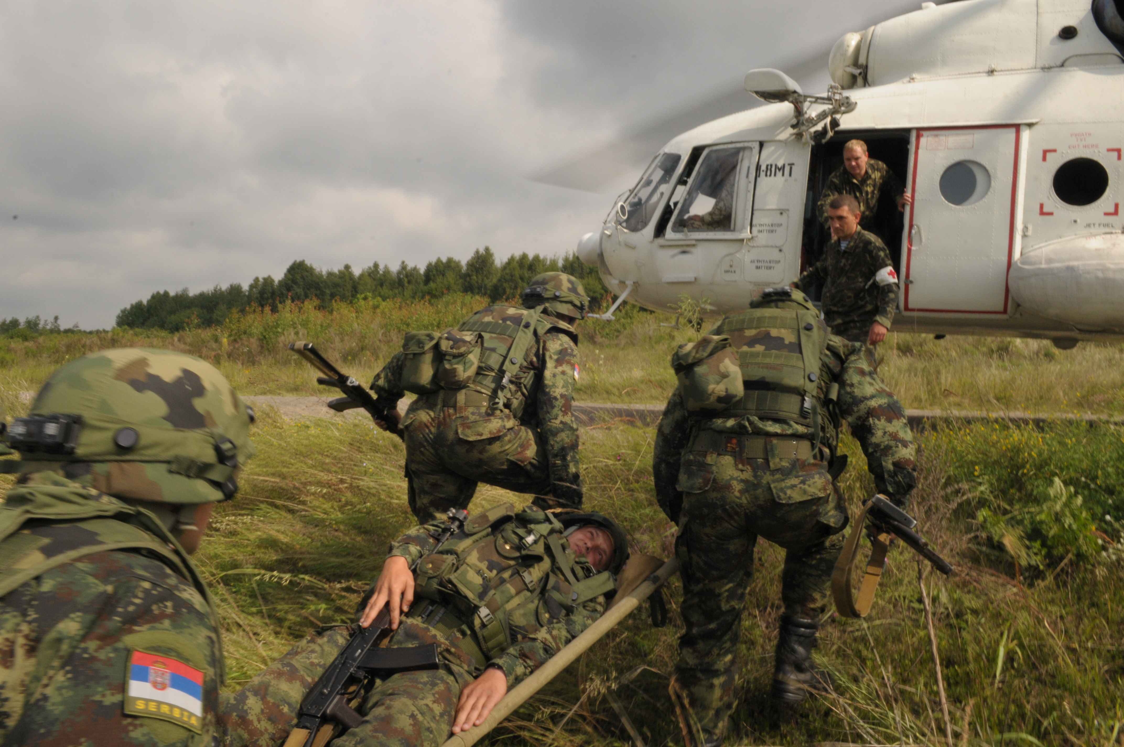 Yavoriv, Ukraine (July 28, 2011)-- Serian and Ukrainian Soldiers conduct medical evacuation drills together during Exercise Rapid Trident 2011. Rapid Trident is a multi-national airborne operation and field training exercise (FTX) in support of Ukraine’s Annual Program to achieve interoperability with NATO. (U.S. Army photo by Staff Sgt. Brendan Stephens/Released)